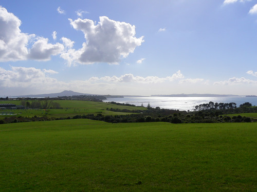 Bucklands Beach : View from Macleans Road. Bucklands Beach : View from Macleans Road.